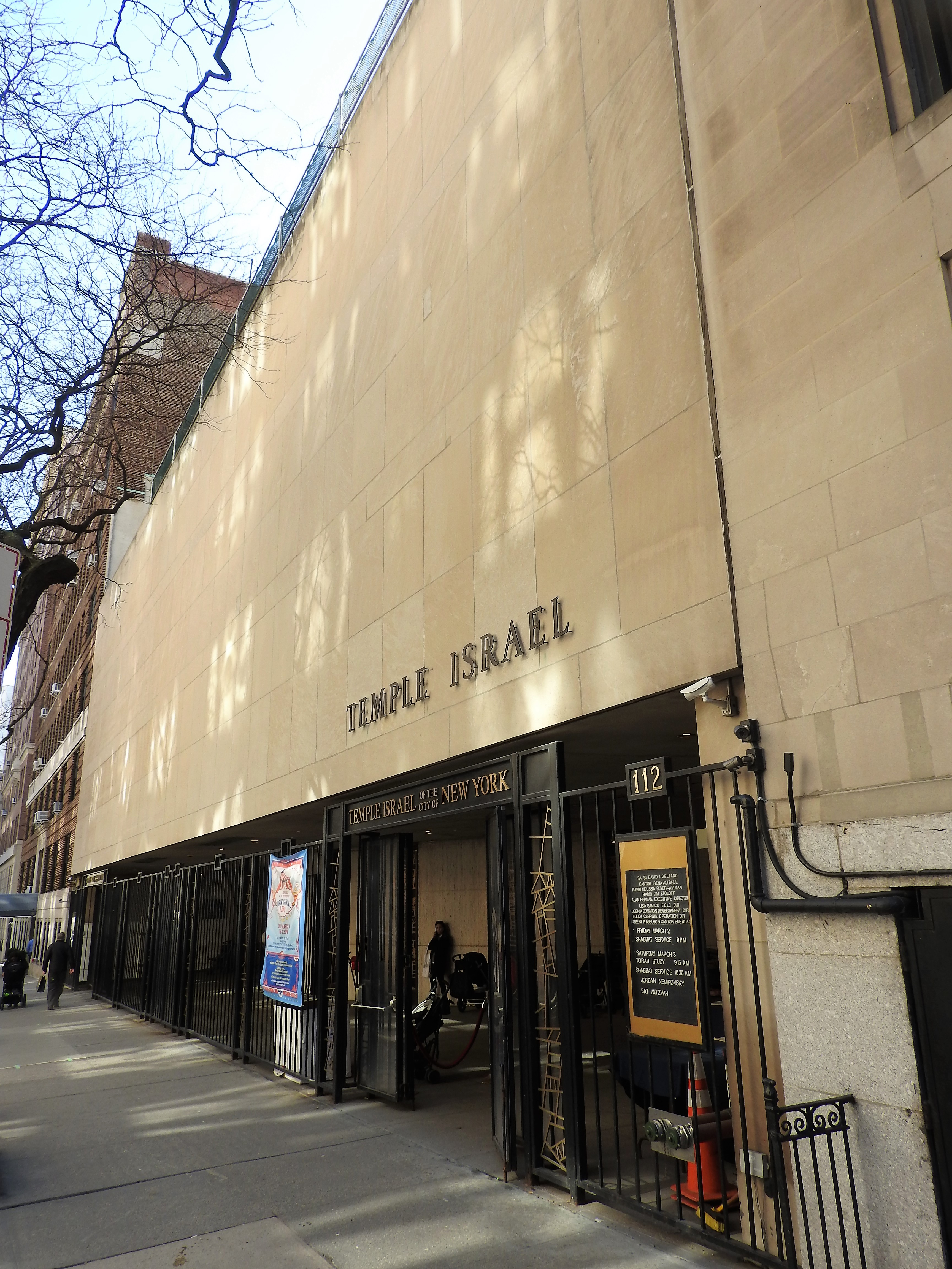 Looking southeast at synagogue wall on a sunny midday